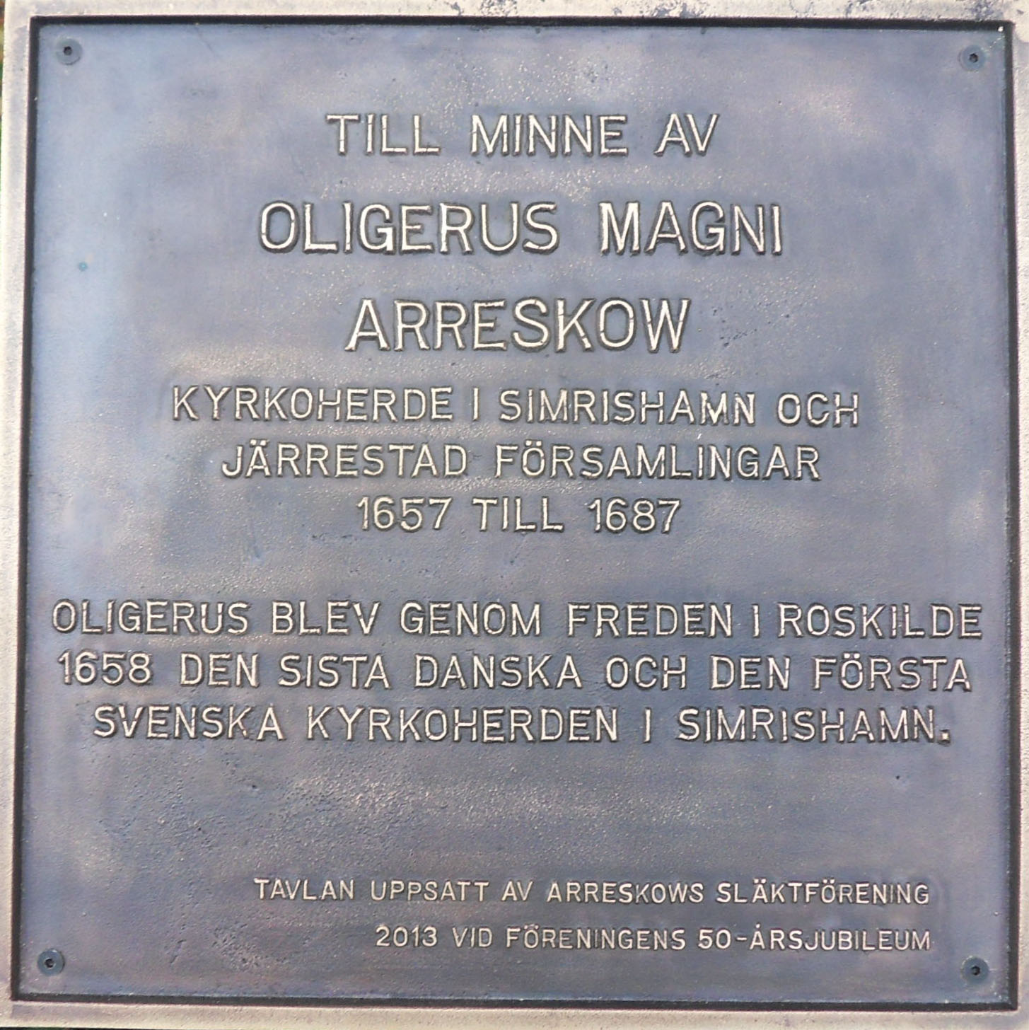 Holger Arreskow commemorative plaque. St Nicolai church in Simrishamn, Scania, Sweden, erected on August 20, 2013.